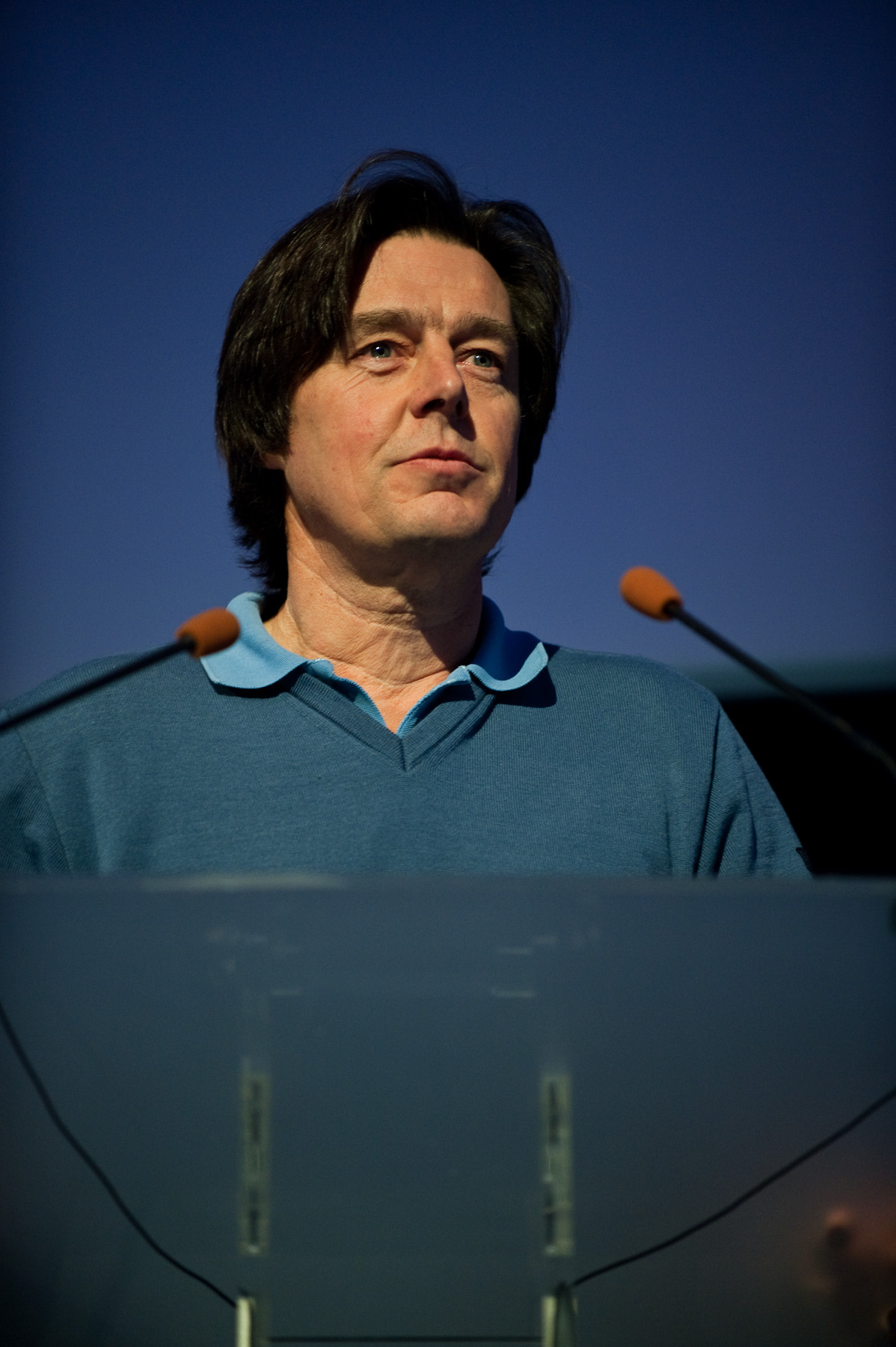 Plugg 2010 Conference in Brussels - Pictures are CC licensed. Use them to talk about Plugg. Plugg 2010 Conference in Brussels - Pictures are CC licensed. Use them to talk about Plugg.